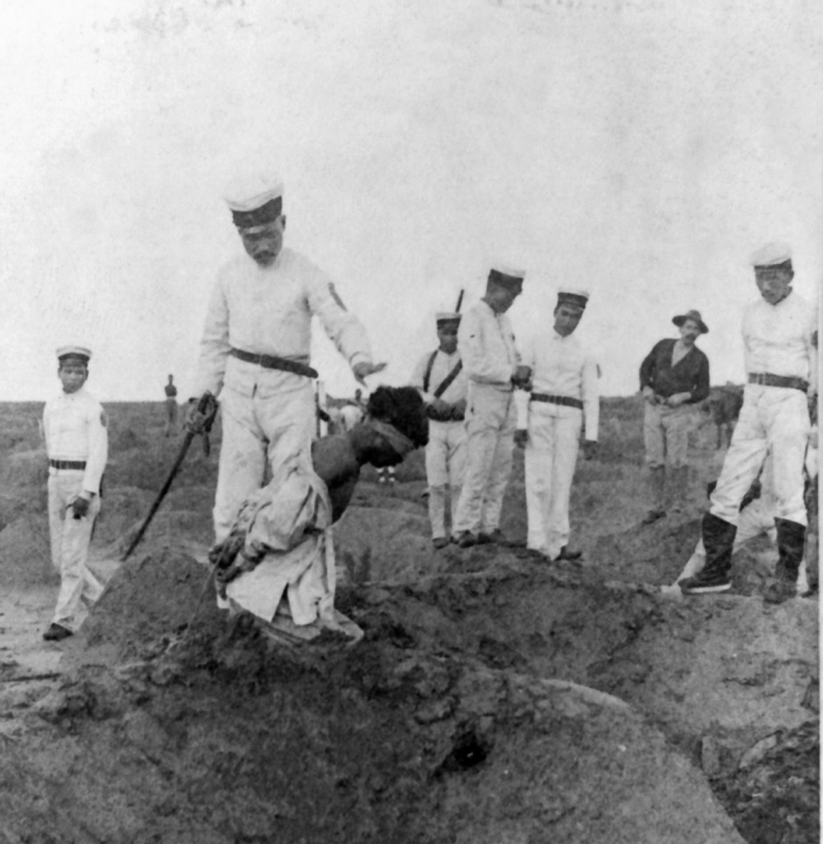 Japanese executioner prepares to behead a condemned Chinese man kneeling before his own grave, Tianjin China. From tif image in LoC, cropped, noise reduced/sharpened, and adjusted curves